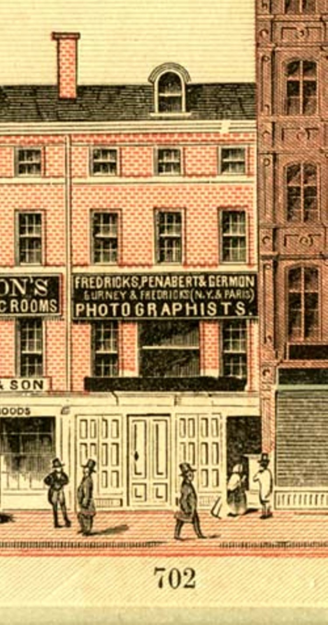 View of the 1859 building where the Fredericks, Penabert & Germon Photographists studio was located at 168 Chestnut Street, South Side, Philadelphia, Pennsylvania, USA, as it appeared in The Baxter's Panoramic Business Directories, Athenaeum of Philadelphia.